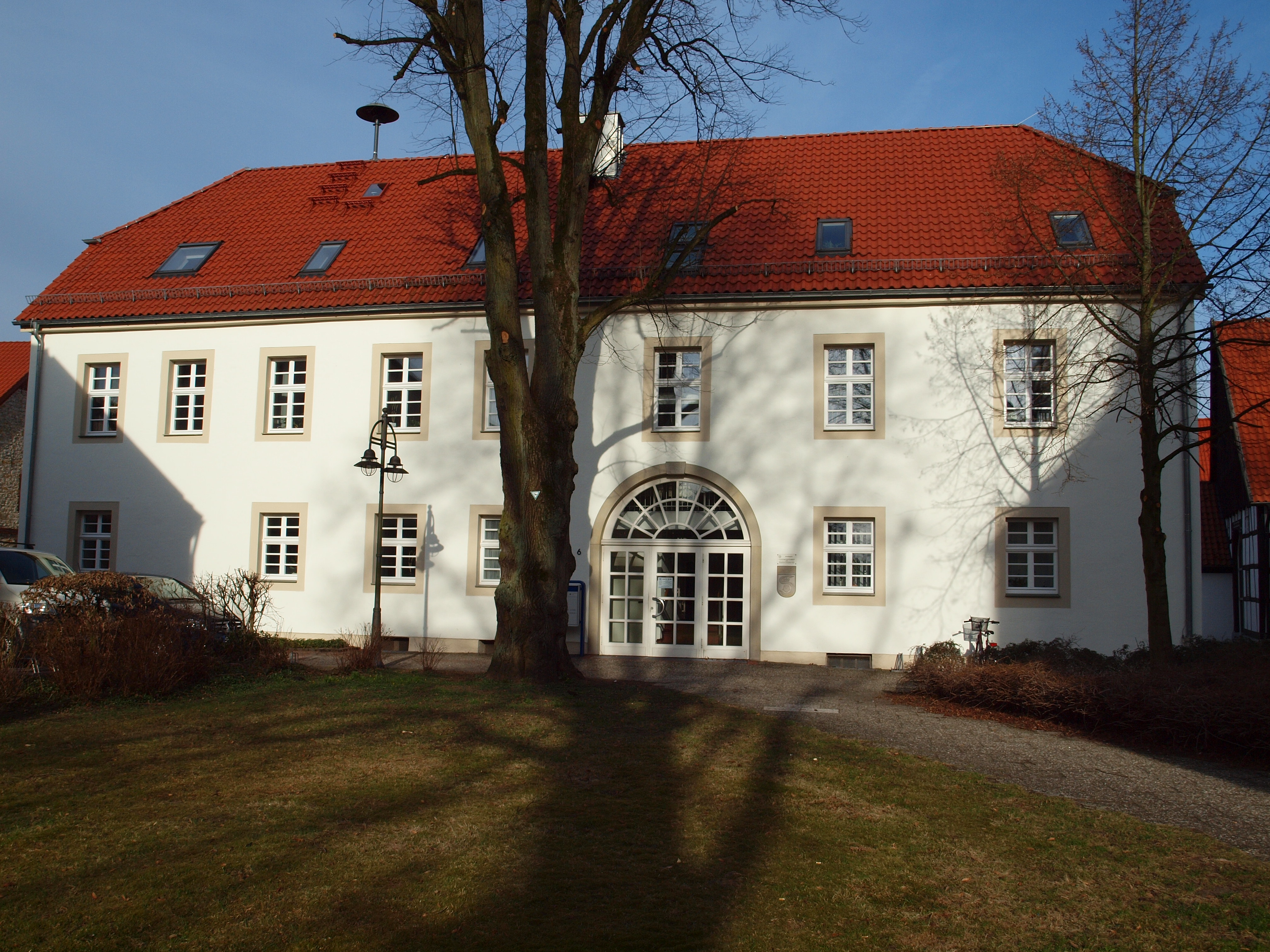 Town House Schlangen